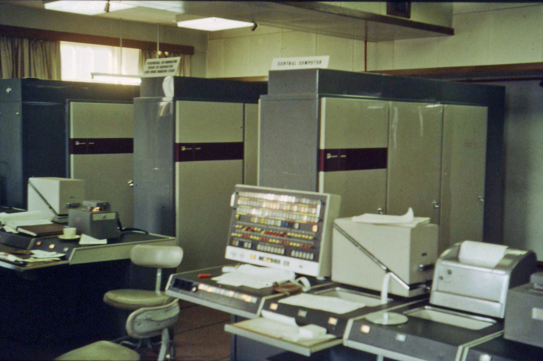 The first Atlas, installed at Manchester University and officially commissioned in 1962, was one of the world's first supercomputers, considered to be the most powerful computer in the world at that time. See the Wikipedia article for more info.